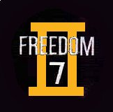 Source is the National Aeronautics and Space Administration